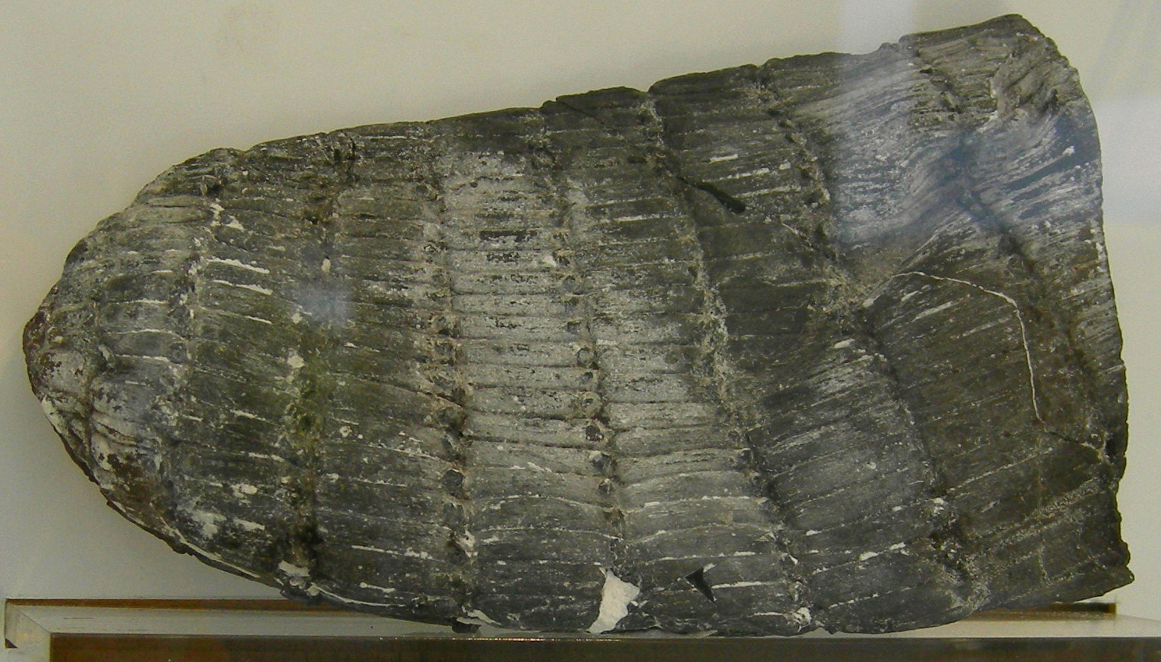 Calamites fossil (huge type of horsetail) at Bracken Hall Countryside Centre and Museum, Baildon, West Yorkshire, England. Photographed through glass.